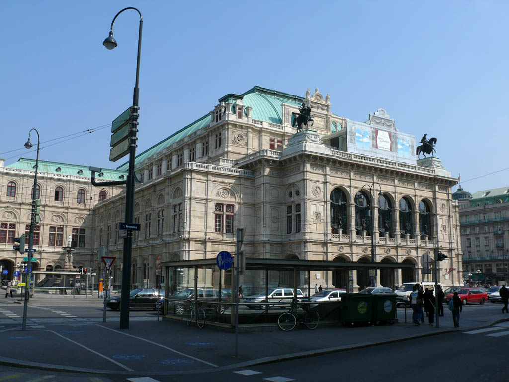 Austria, Vienna, Vienna State Opera